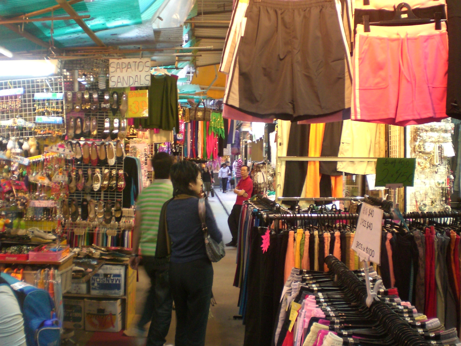 利源東街（Lee Yuen Street East）是zh:香港港島zh:中環的一條zh:街道。 Author= User:VictoriaOP